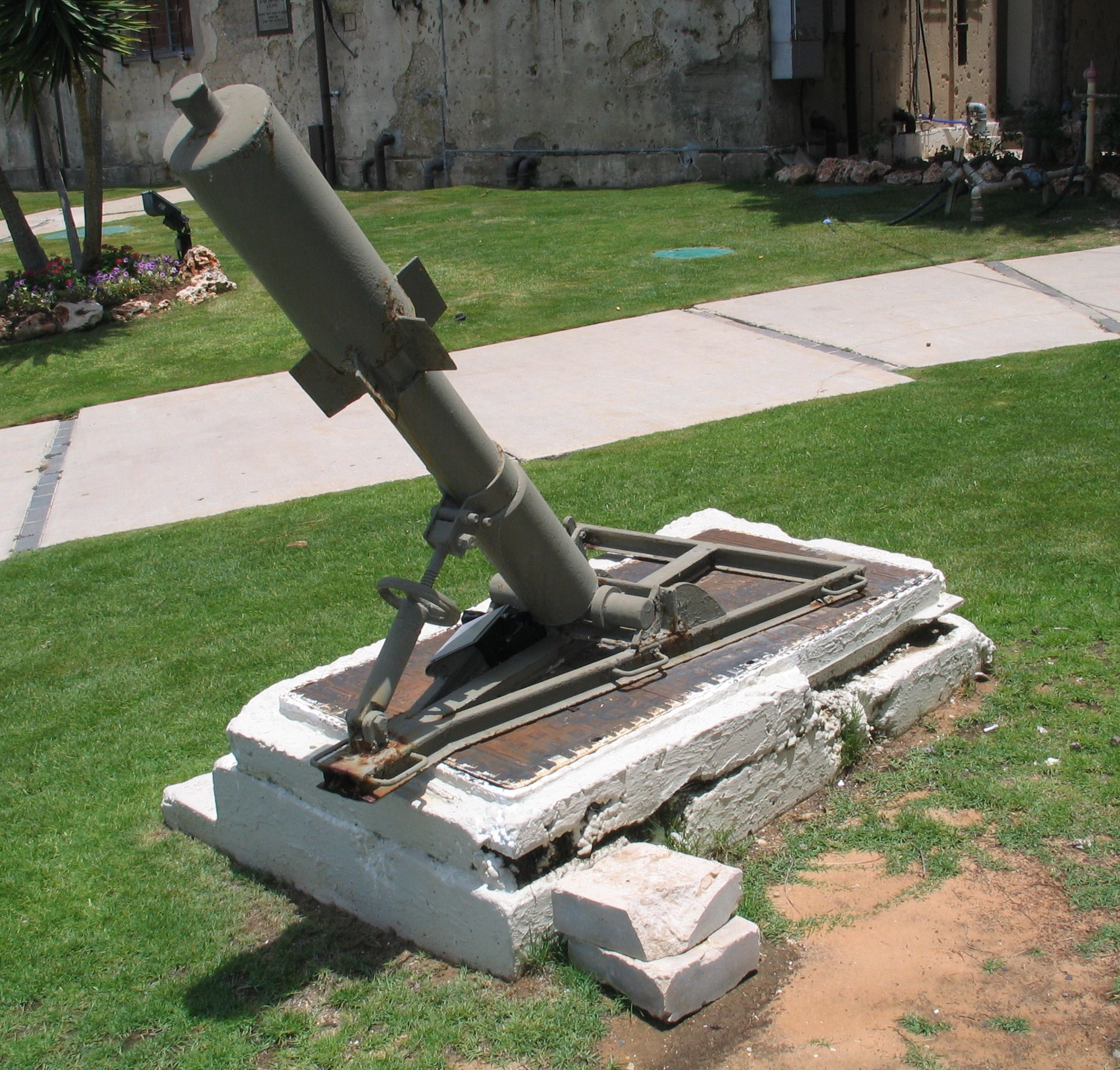 Davidka mortar displayed in the Givati Brigade Museum, Metsudat Yoav, Israel.